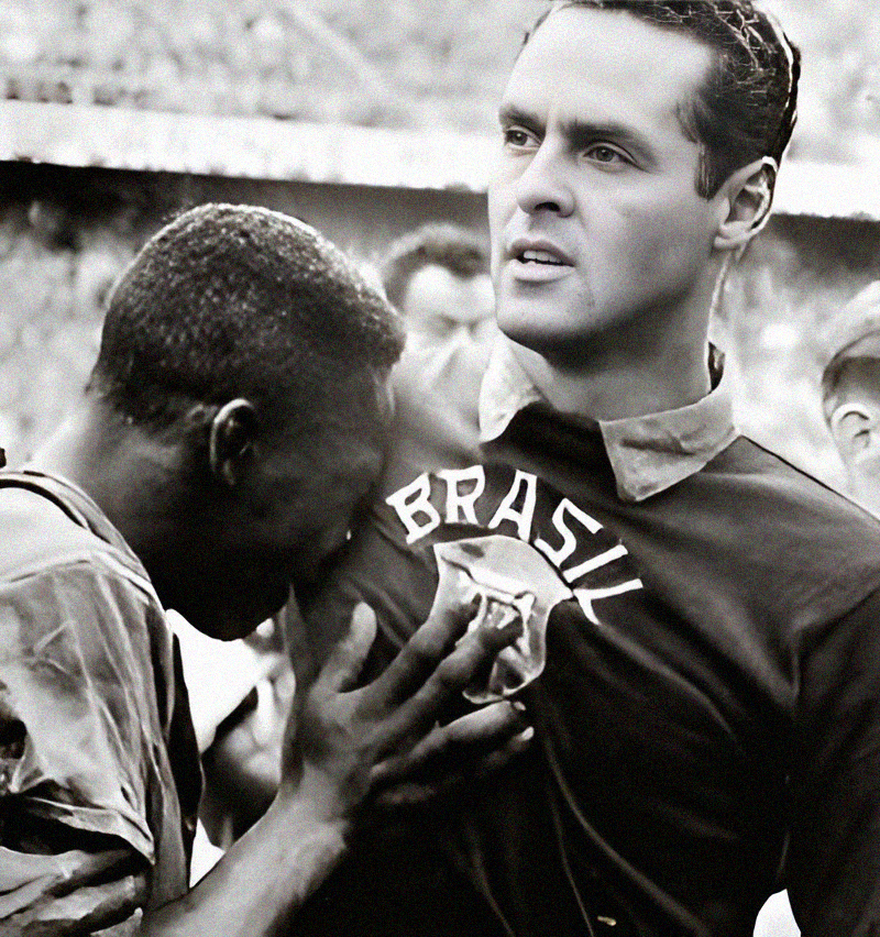 Gylmar dos Santos aka "Gilmar", Brazilian goalkeeper, together with Pelé after winning the 1958 World Cup.